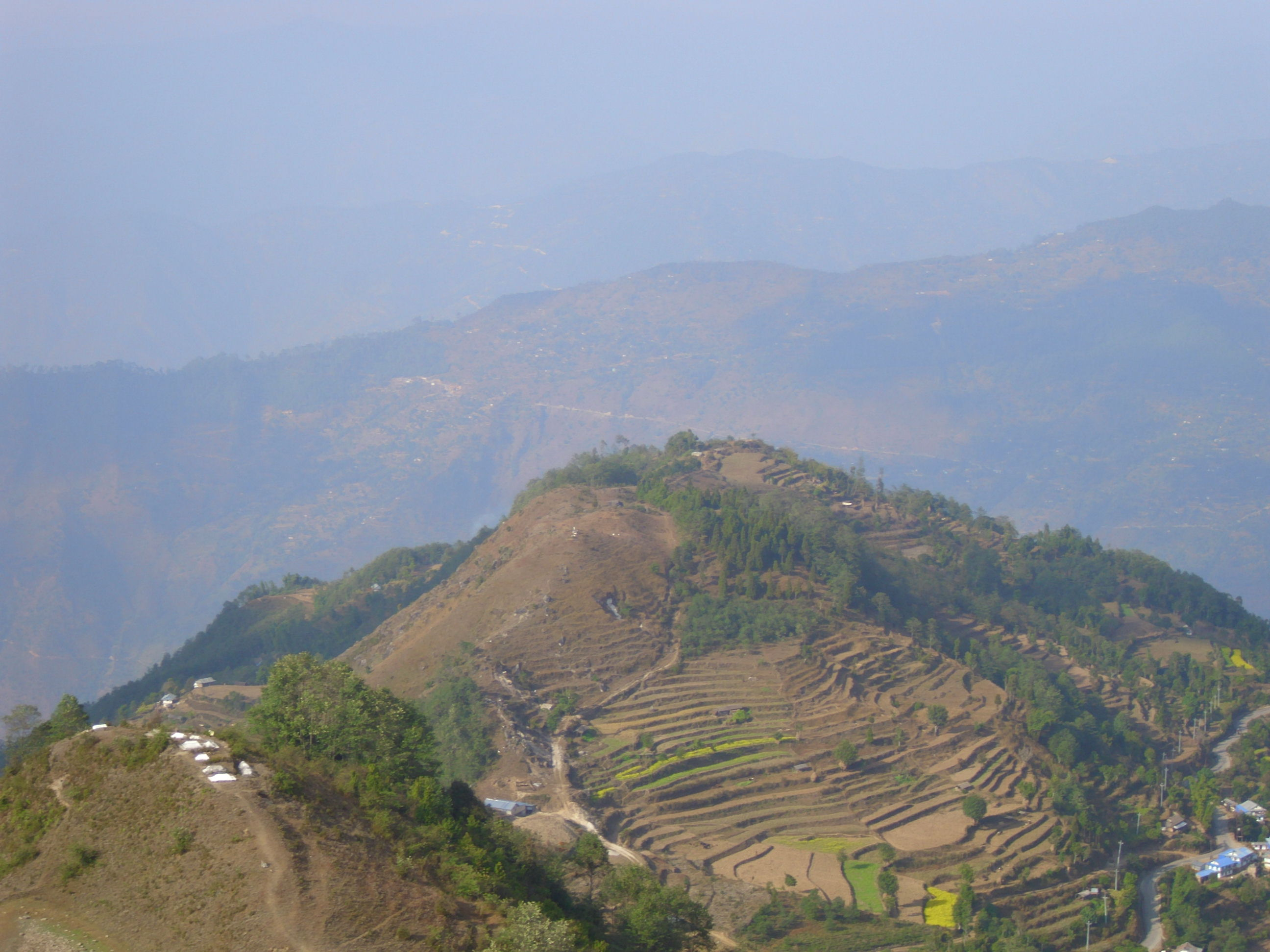 View of Pachthar District form Lobrekuti.